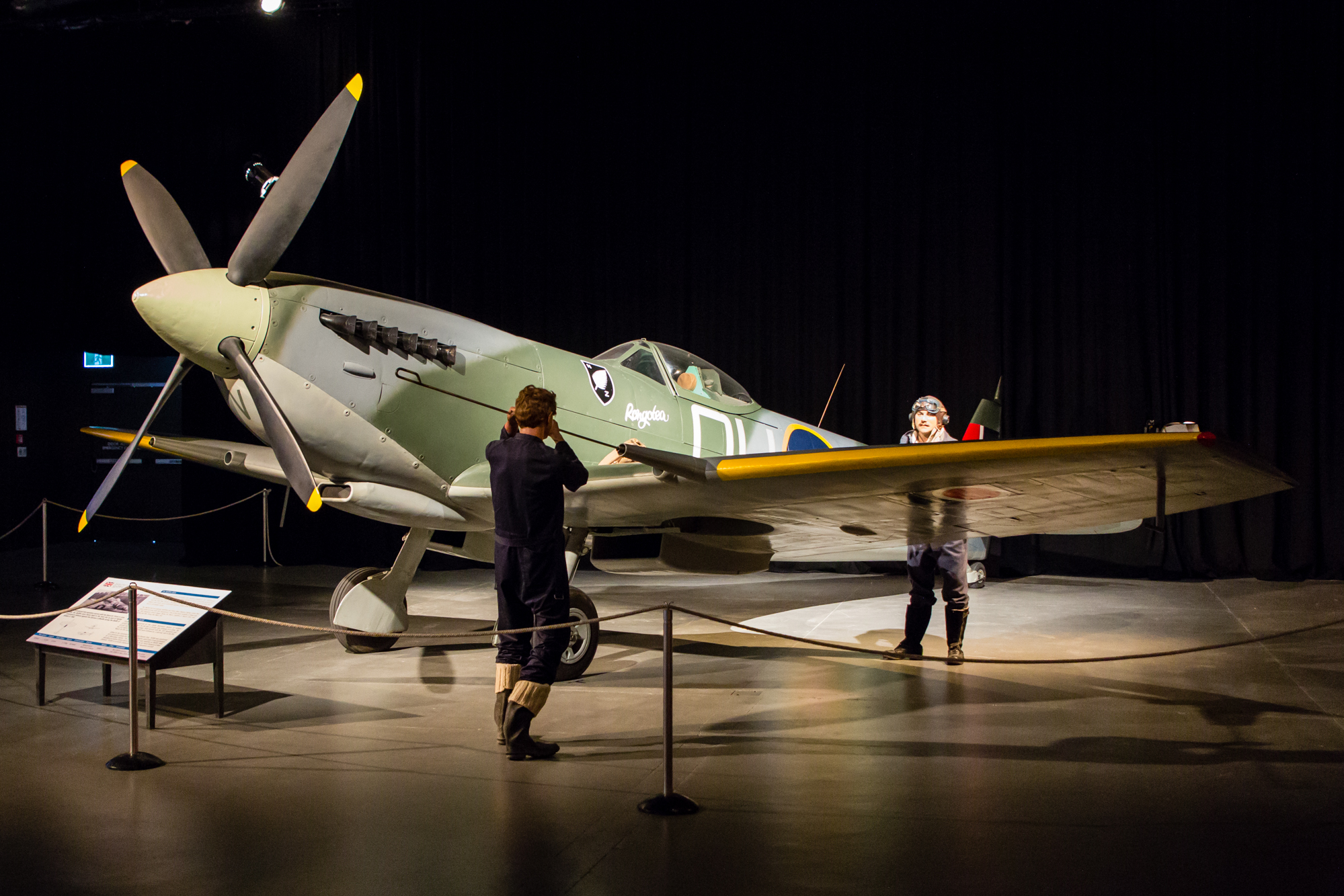 Supermarine Spitfire LF Mk.XVIe TE288 at the Air Force Museum of New Zealand in Christchurch